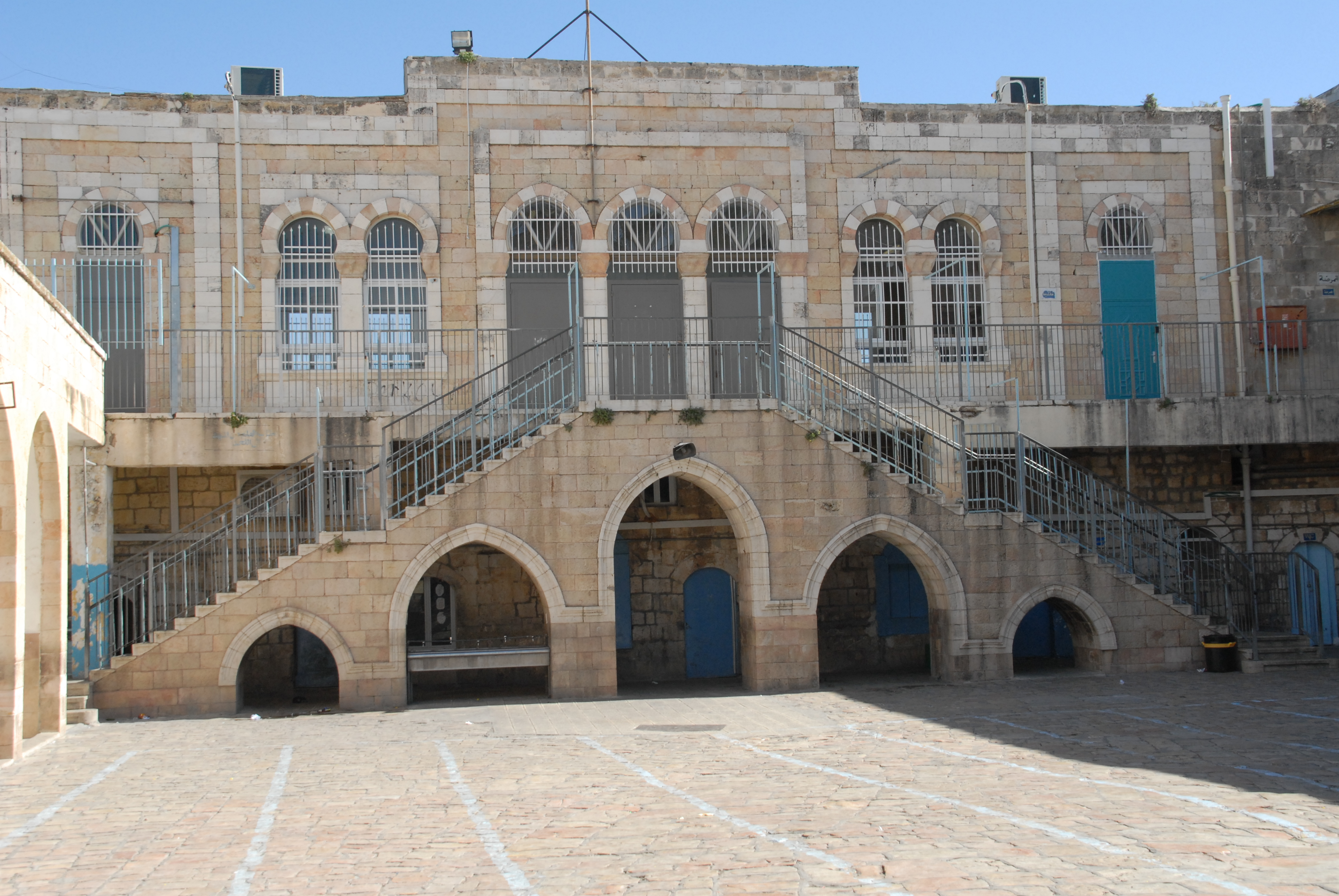 Religion in Jerusalem